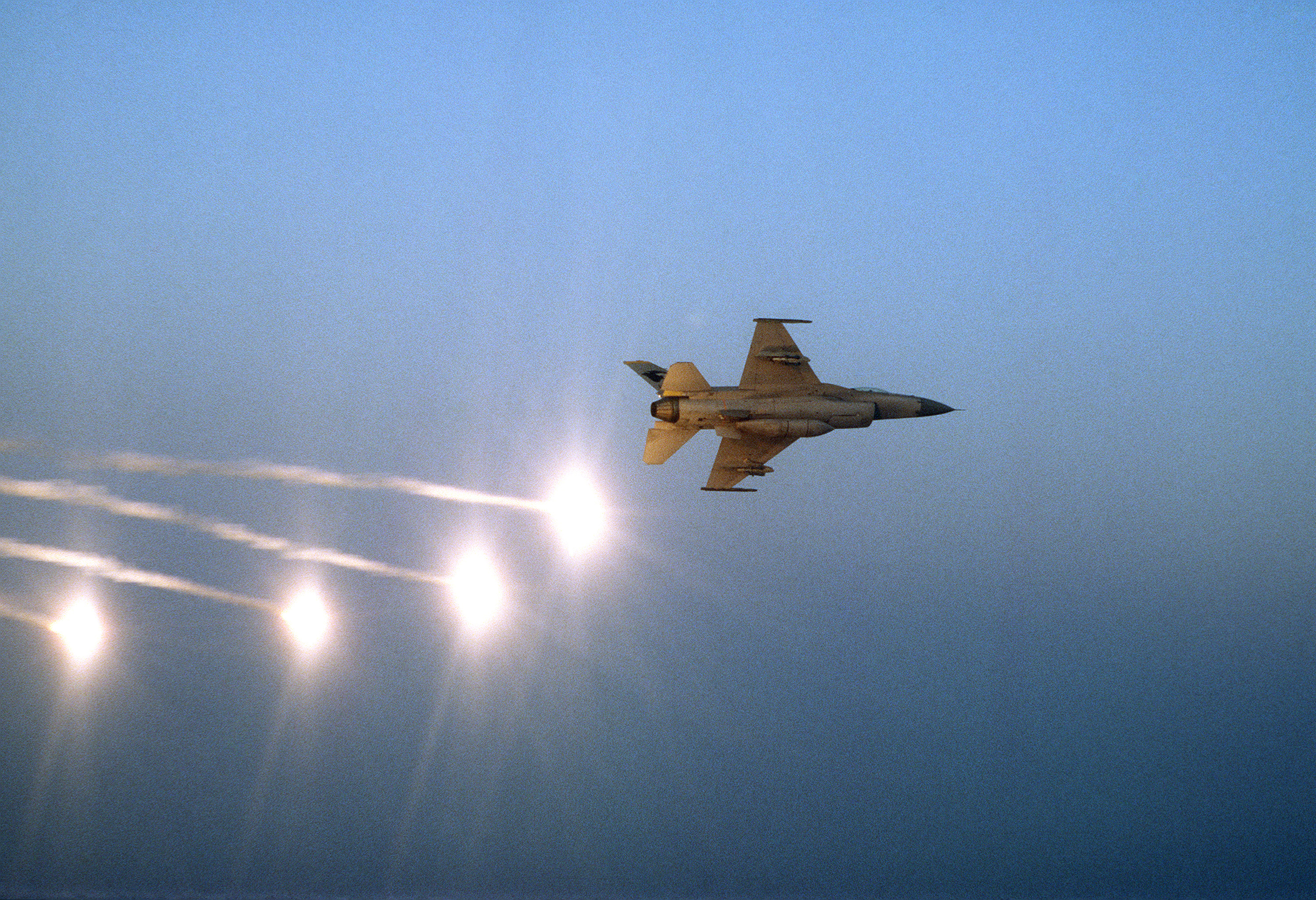 An 8th Tactical Fighter Wing F-16 Fighting Falcon aircraft releases four flares as a countermeasure for heat-seeking missiles during Exercise Team Spirit '86.